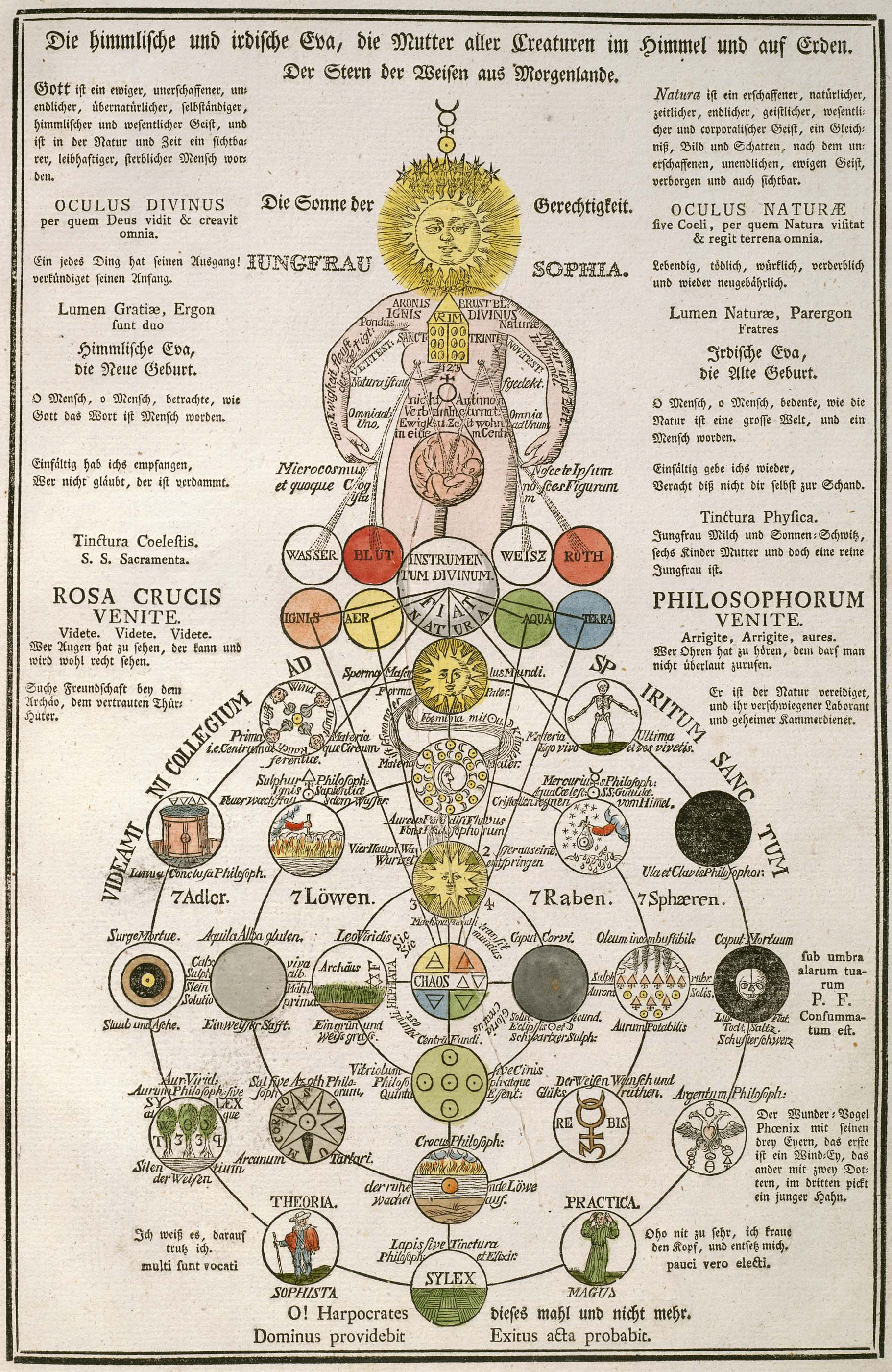 Source: Geheime Figuren der Rosenkreuzer, Altona, 1785. Secret Figures of the Rosicrucians of the 16th and 17th Centuries, Altona, Germany, 1785.